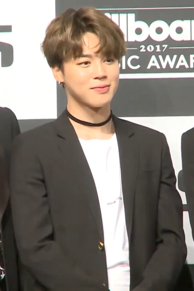 Jimin at a press conference for the Billboard Music Awards on May 29, 2017